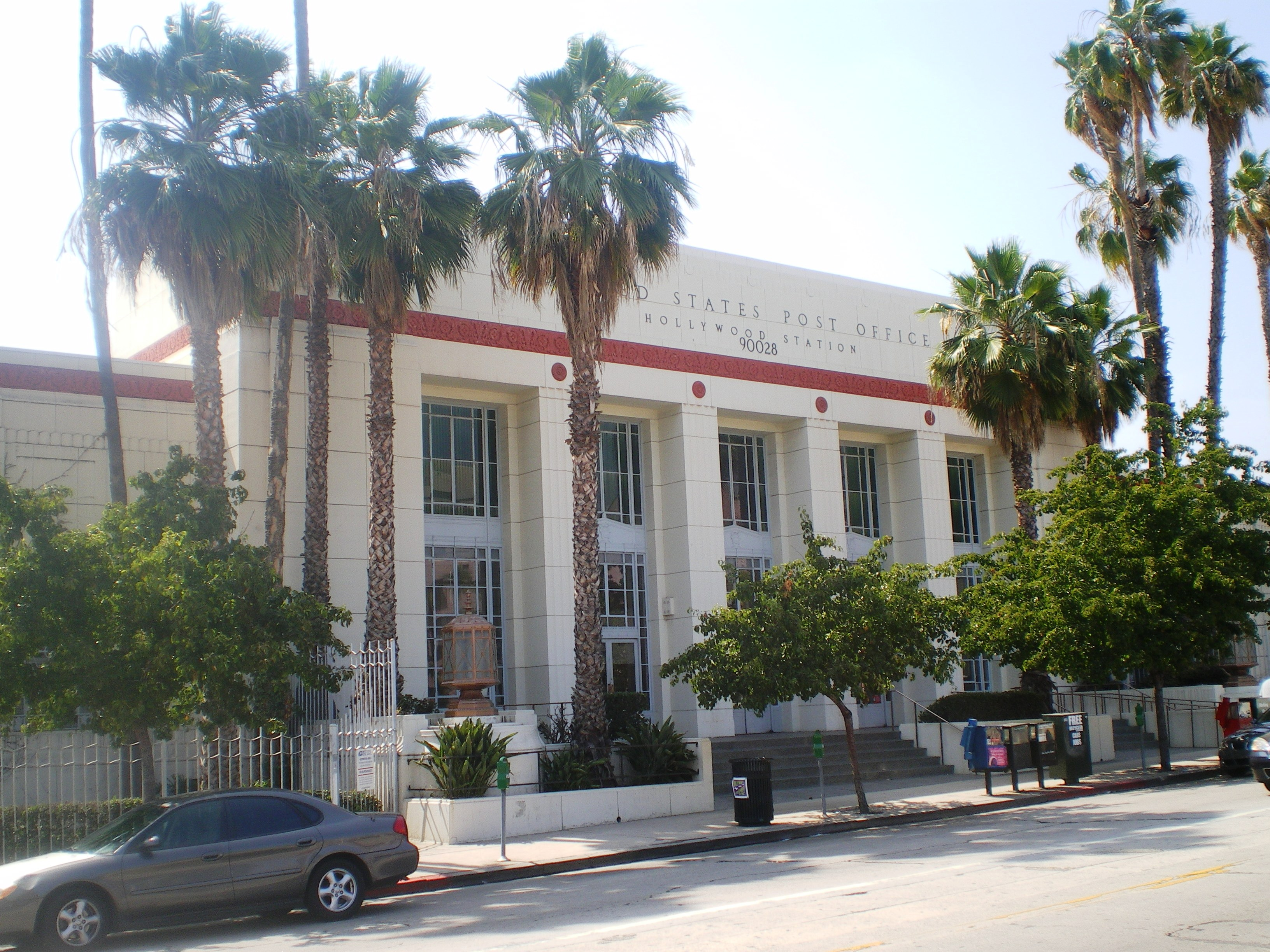 United States Post Office - Hollywood Station, 1615 N. Wilcox Ave., Hollywood, California. 1930s building by the Works Progress Administration, on the National Register of Historic Places.